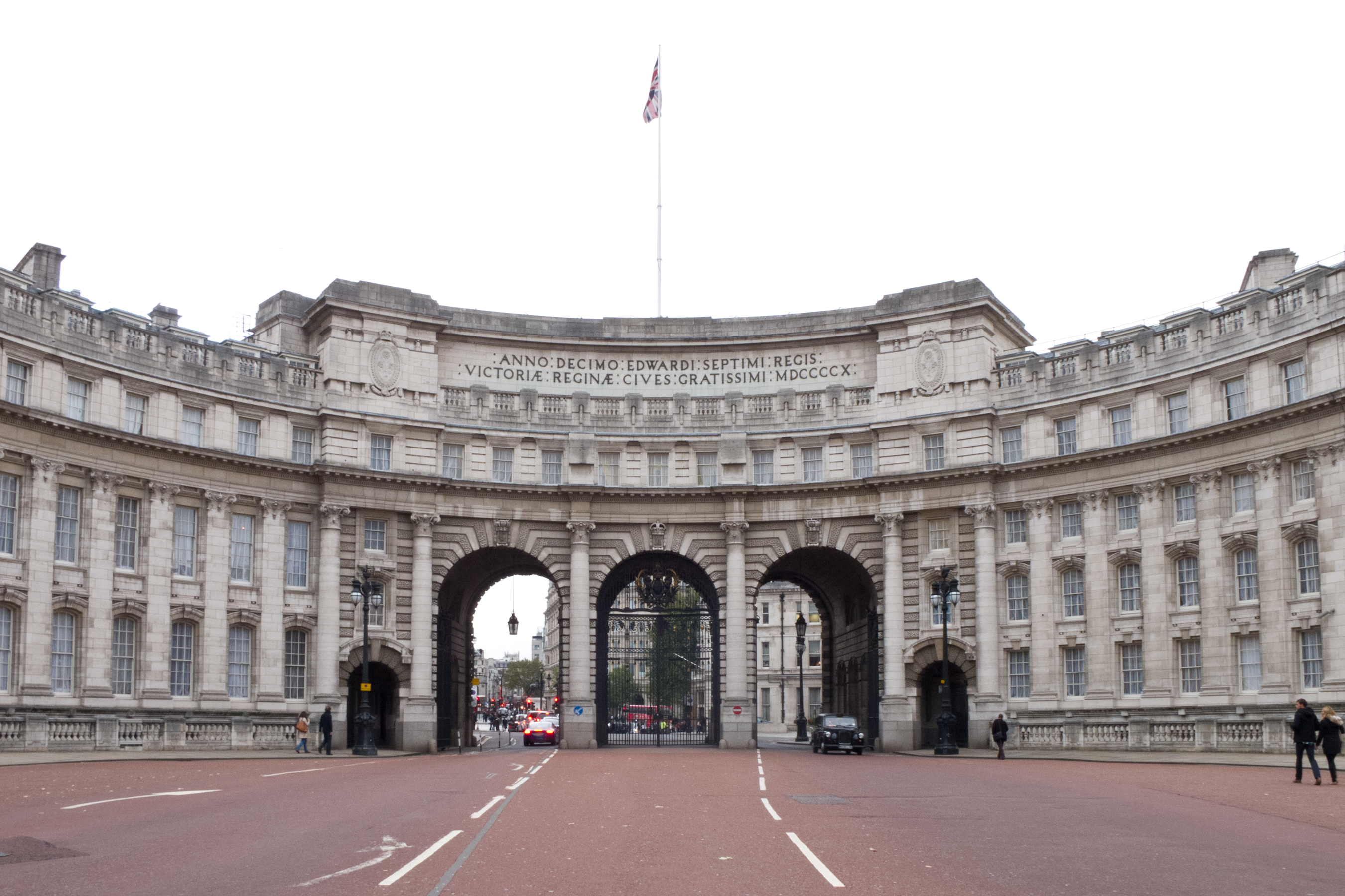 Admiralty Arch, London, England.